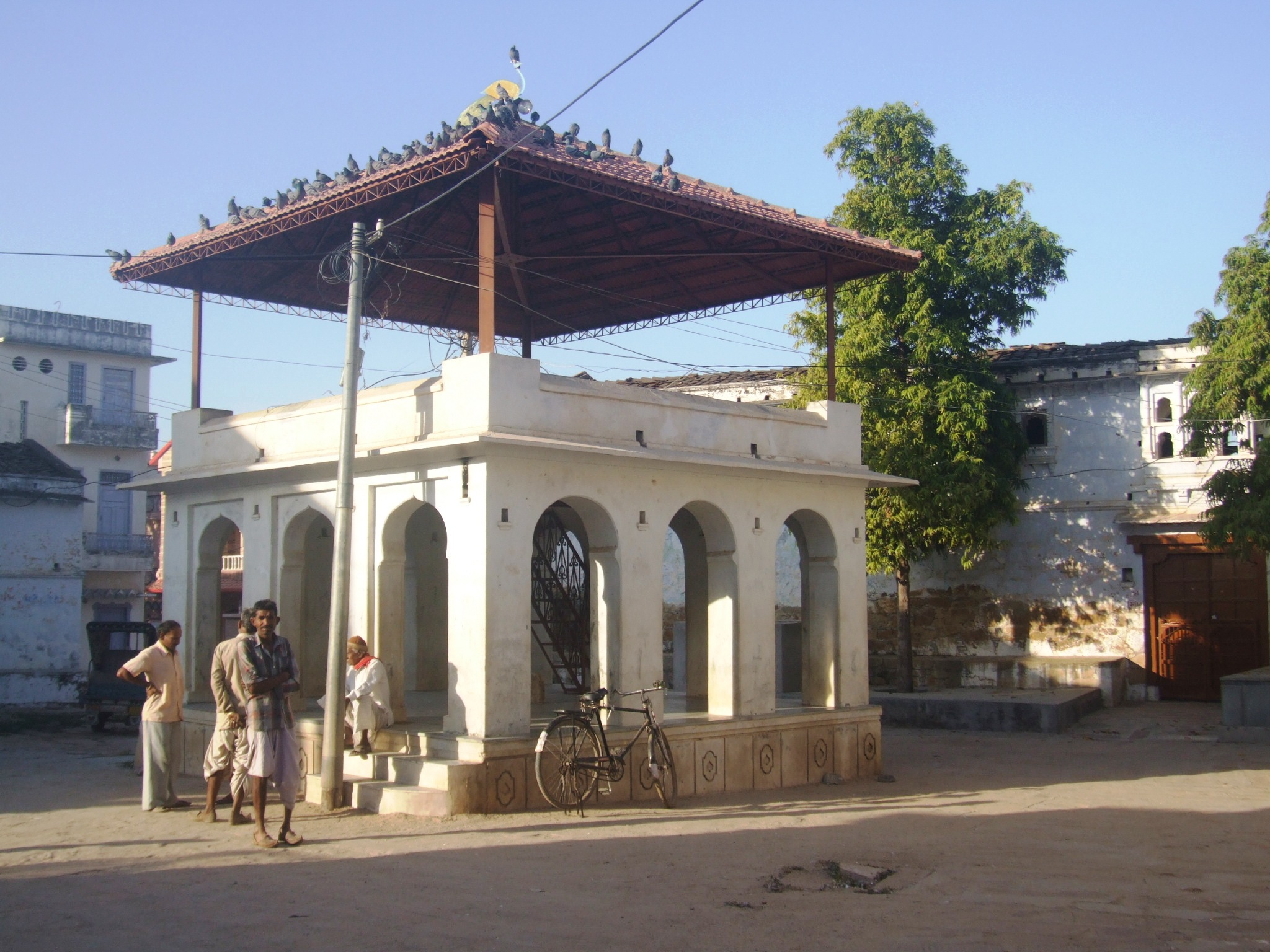 Chaurah